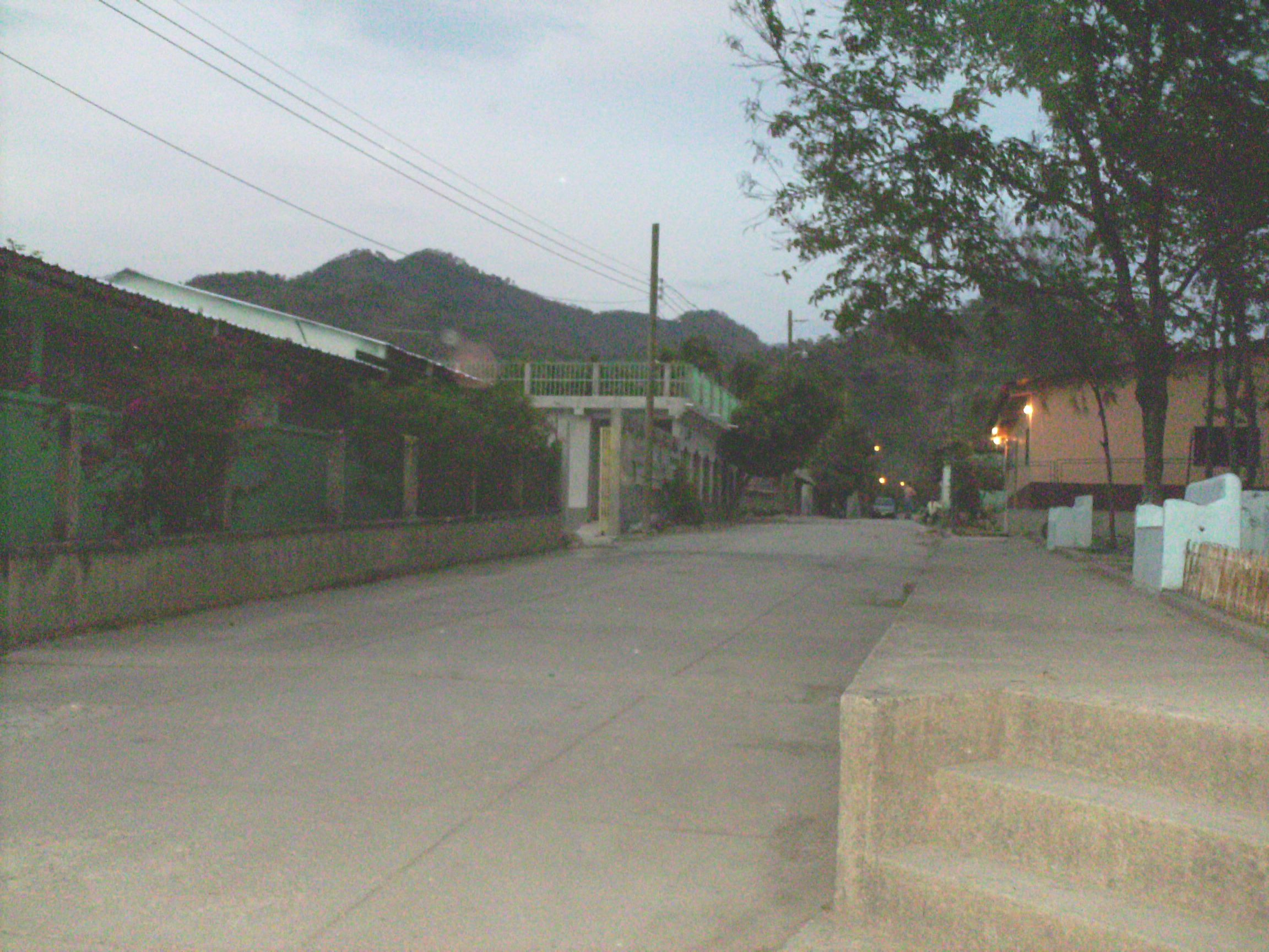 Cololaca, municipality in the Honduran department of Lempira.